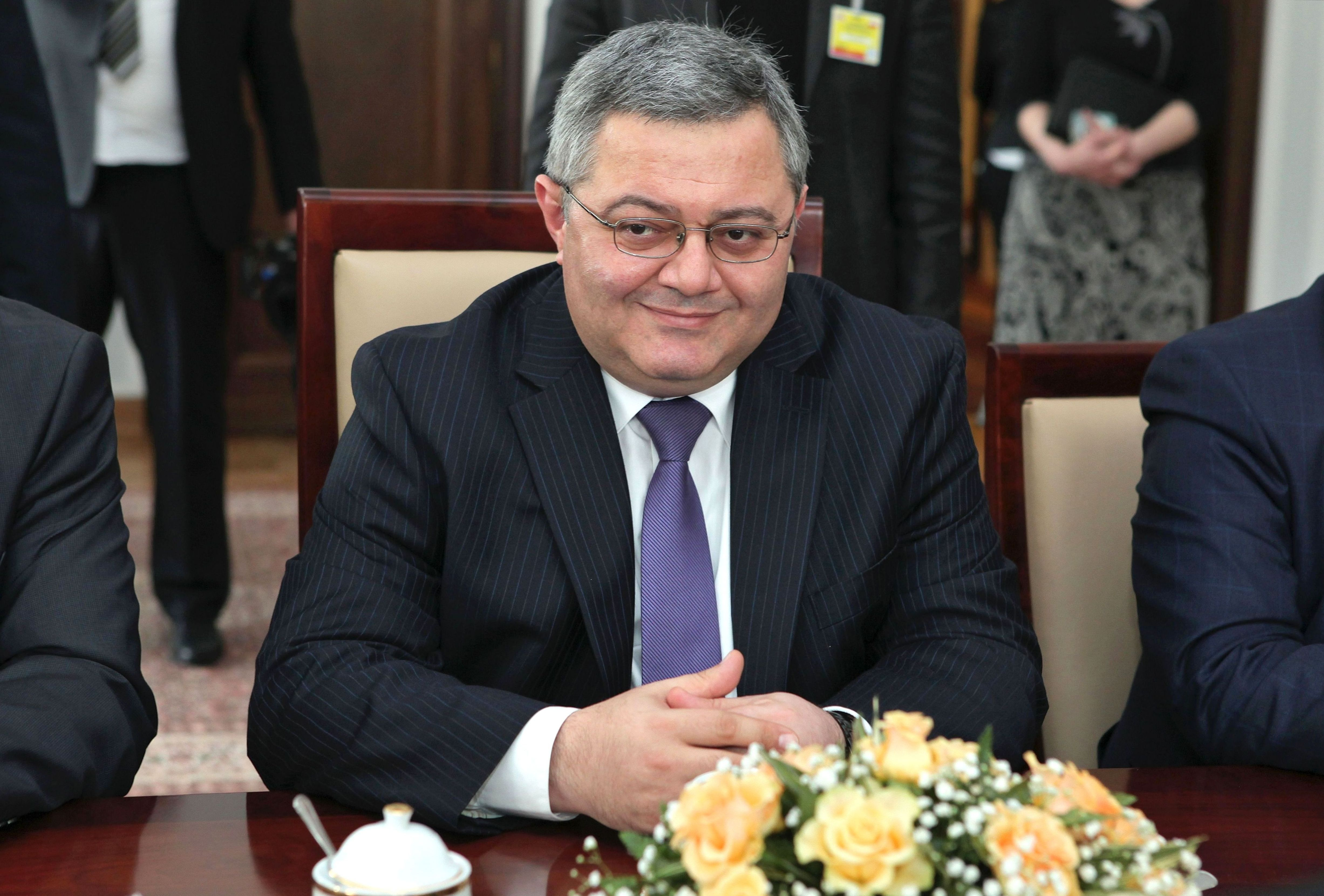 Chairman of the Parliament of Georgia David Usupashvili in the Polish Senate